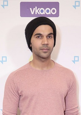 premiere of Moonlight at the Jio MAMI Film Club